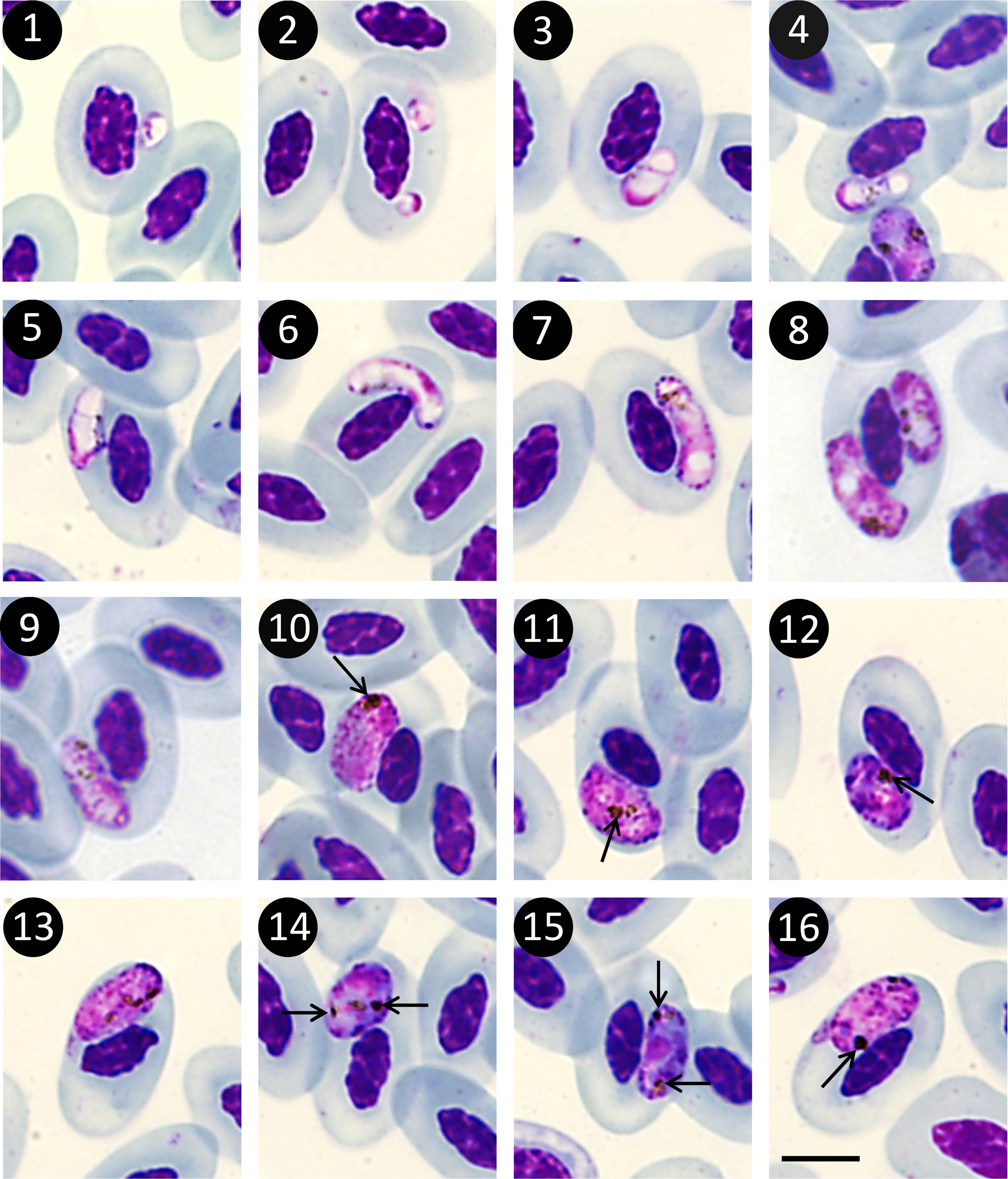 Haemoproteus ilanpapernai Karadjian and Landau, 2014 Microphotographs of gametocytes of Haemoproteus ilanpapernai Karadjian & Landau n. sp. in the blood of Strix seloputo. 1–5: Young gametocytes; 6 and 7: immature gametocytes; 8 and 9 : nearly mature gametocytes; 10 and 16: microgametocytes with agglomerated pigment (arrows); 11 and 13: microgametocytes with the erythrocyte nucleus tilted; 12: macrogametocyte with the erythrocyte nucleus tilted; 14 and 15: macrogametocytes with aggregation of pigment (arrows). Giemsa staining. Scale bar = 5 μm.